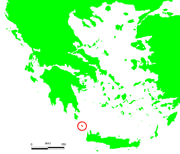 Antikythera.png (Greek island)